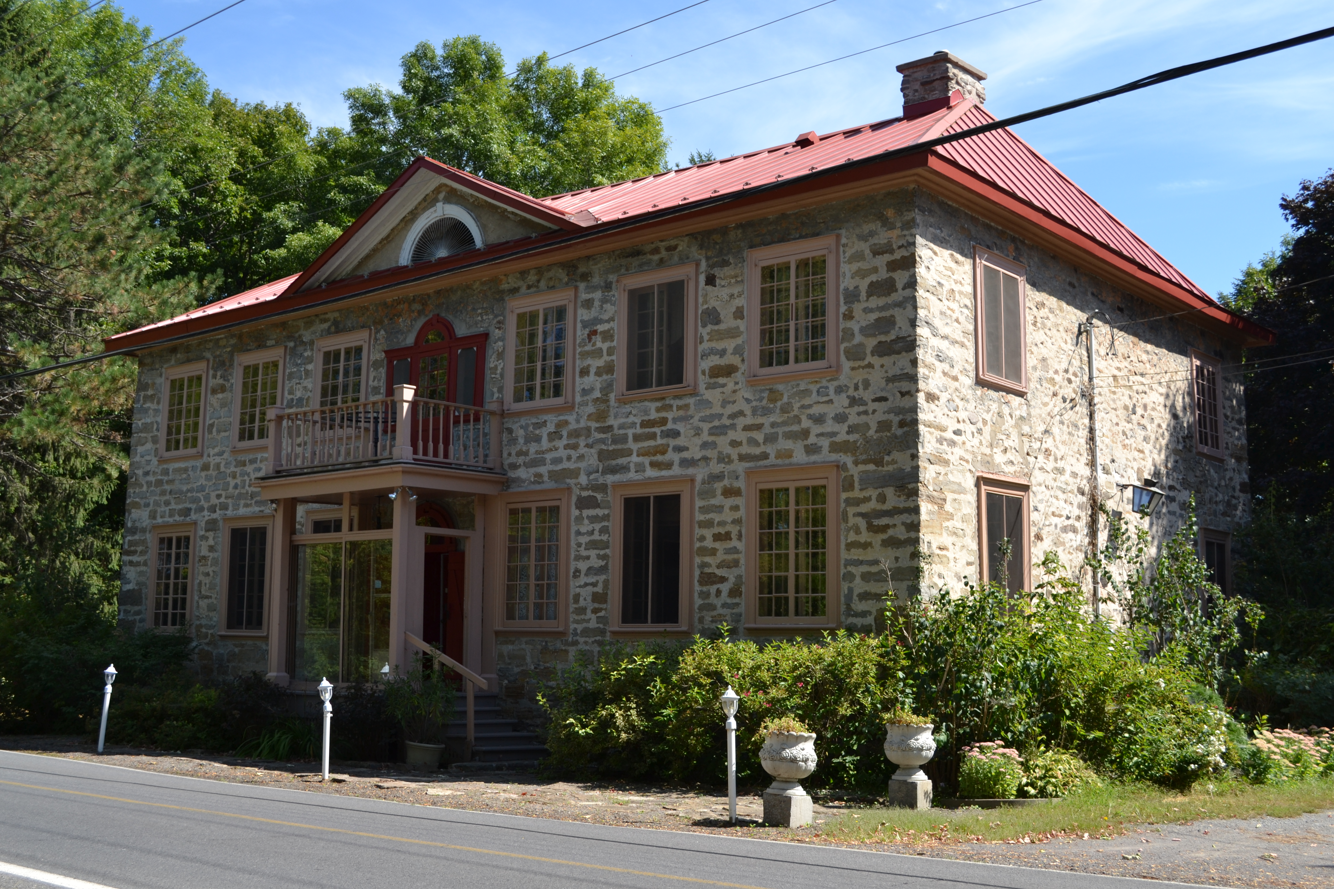 Located at , the house Sauvageau-Sweeny is a Palladian style residence built in the first quarter of the nineteenth century.